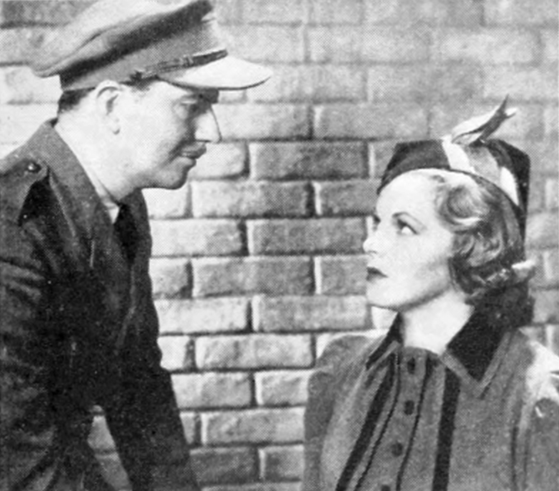 Constance Worth and Vincent Hayworth in the 1937 film, China Passage. Other information for an explanation of the copyright for information regarding public domain